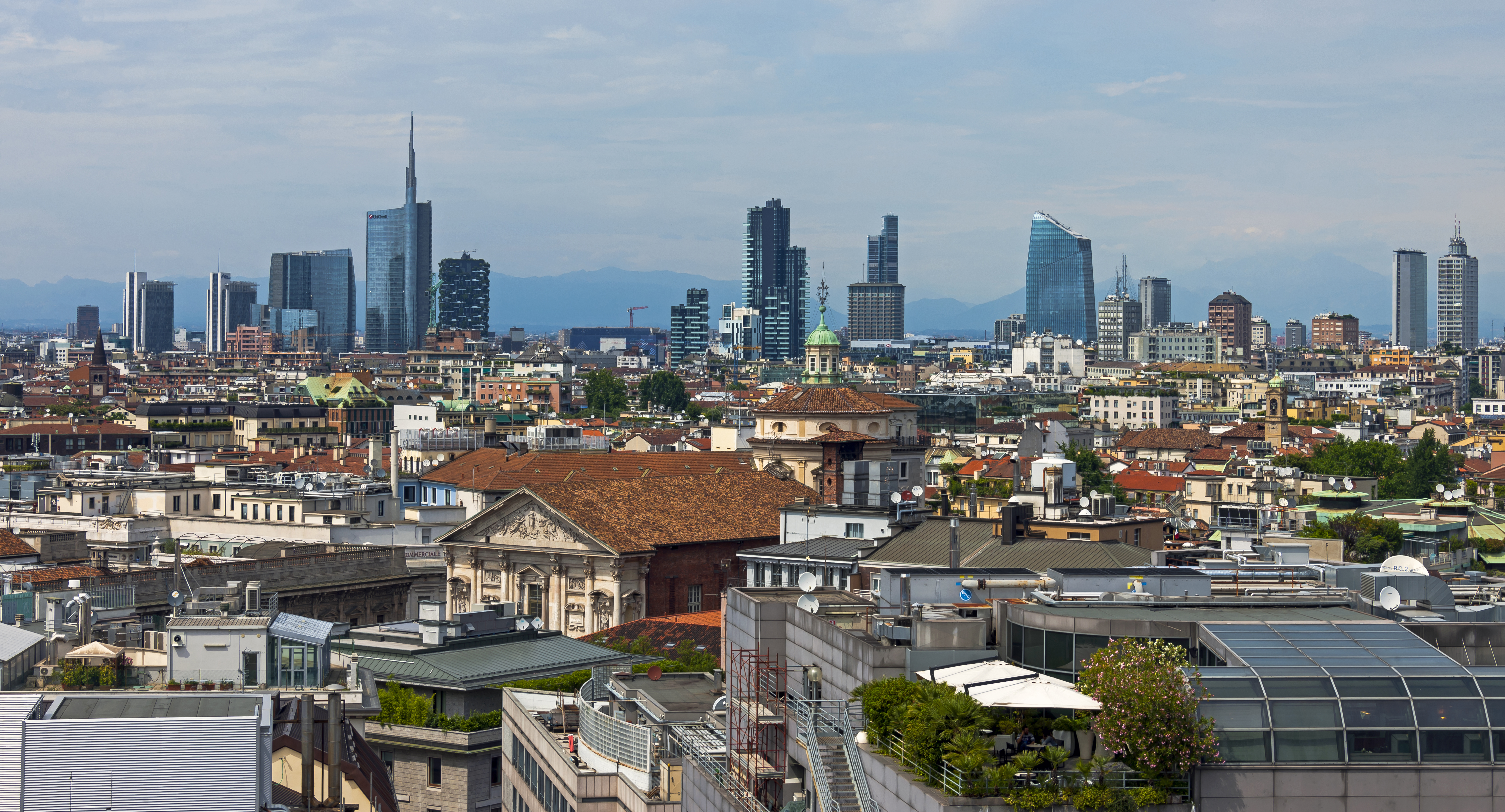 Milan skyline from roof of the Duomo